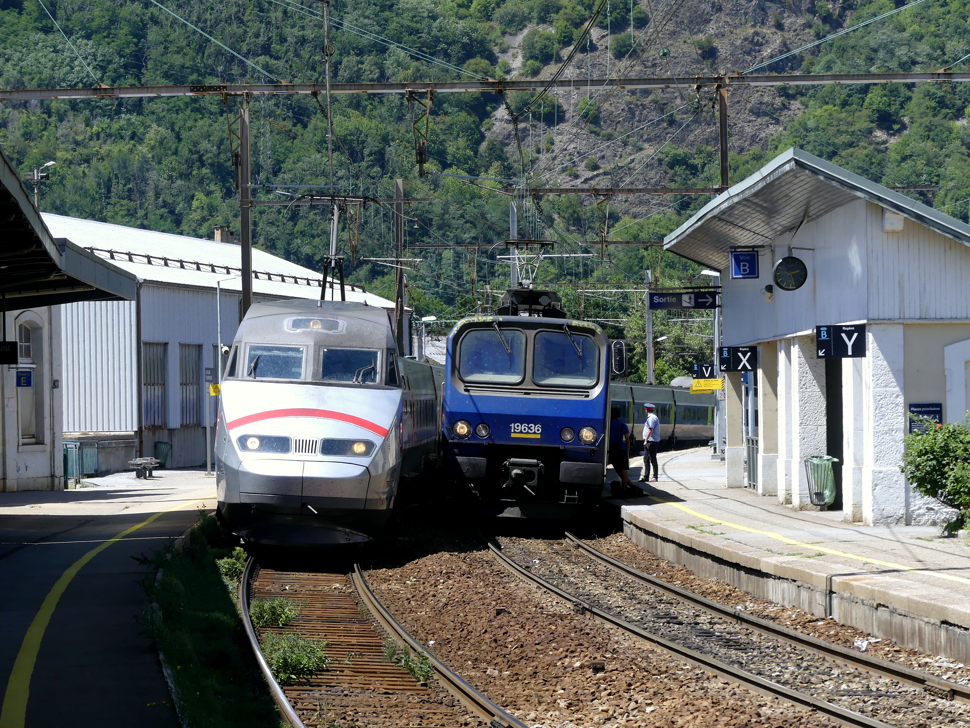 Sight of a French TGV on journey n° 9249 from Paris to Milano (Italy), overtaking the regional train n° 883313 from Chambéry to Modane, in Saint-Jean-de-Maurienne railway station, in Savoie.